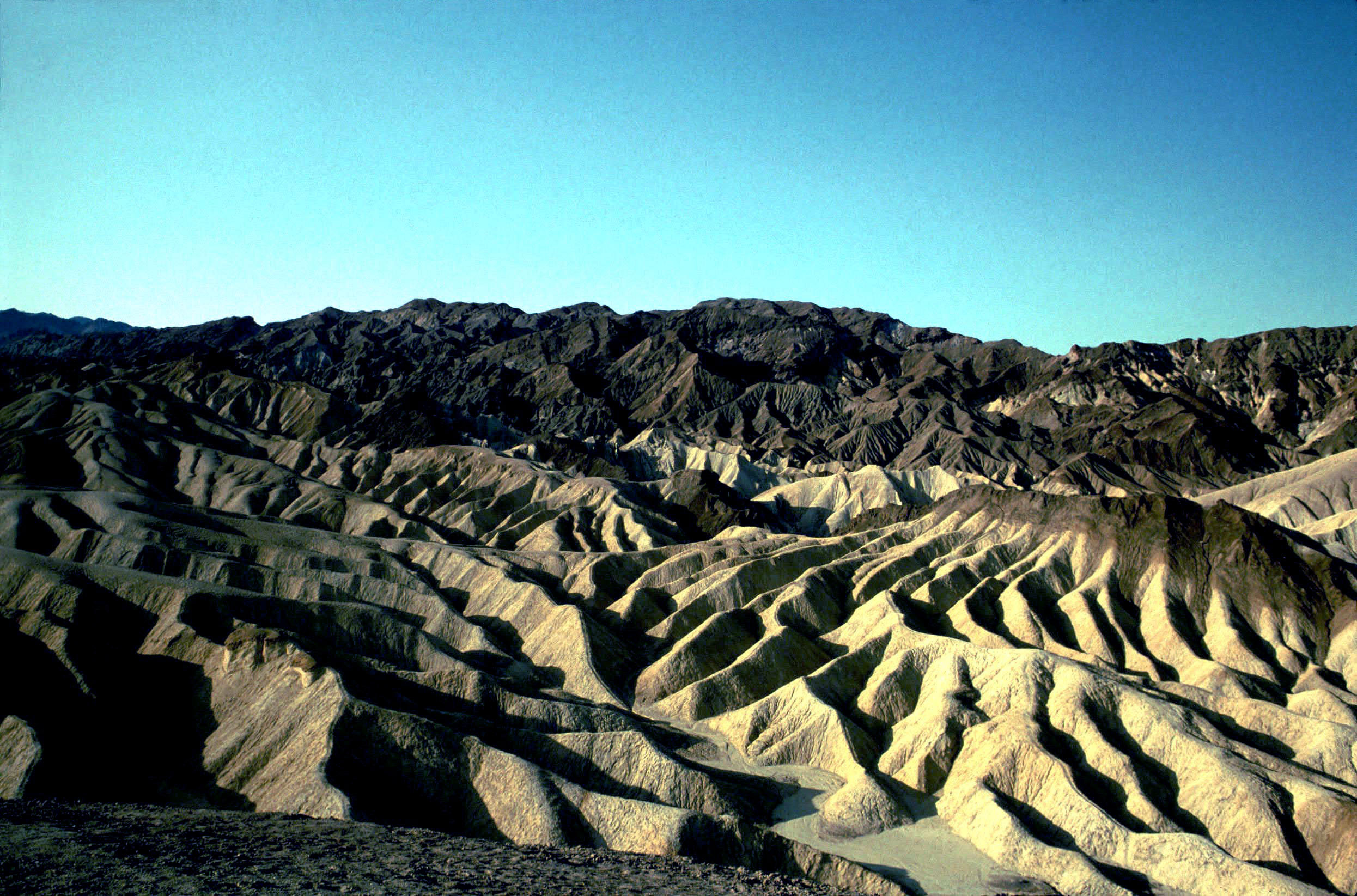 Death Valley,Zabriskie Point,Badlands panview at rise